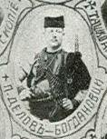 Portrait of IMARO member P. Delov from Bogdanovtsi